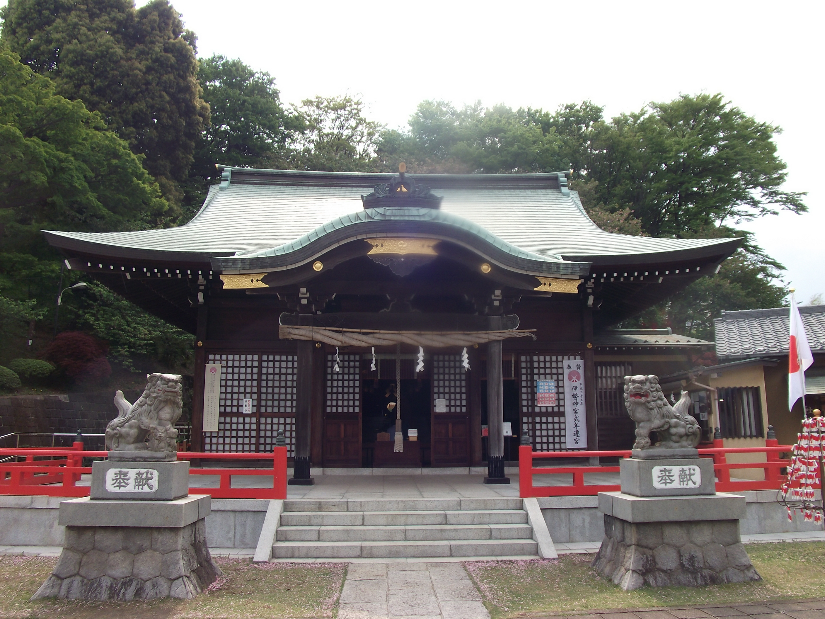 Shirahata Hachiman Daijin shrine (Miyamae, Kawasaki).